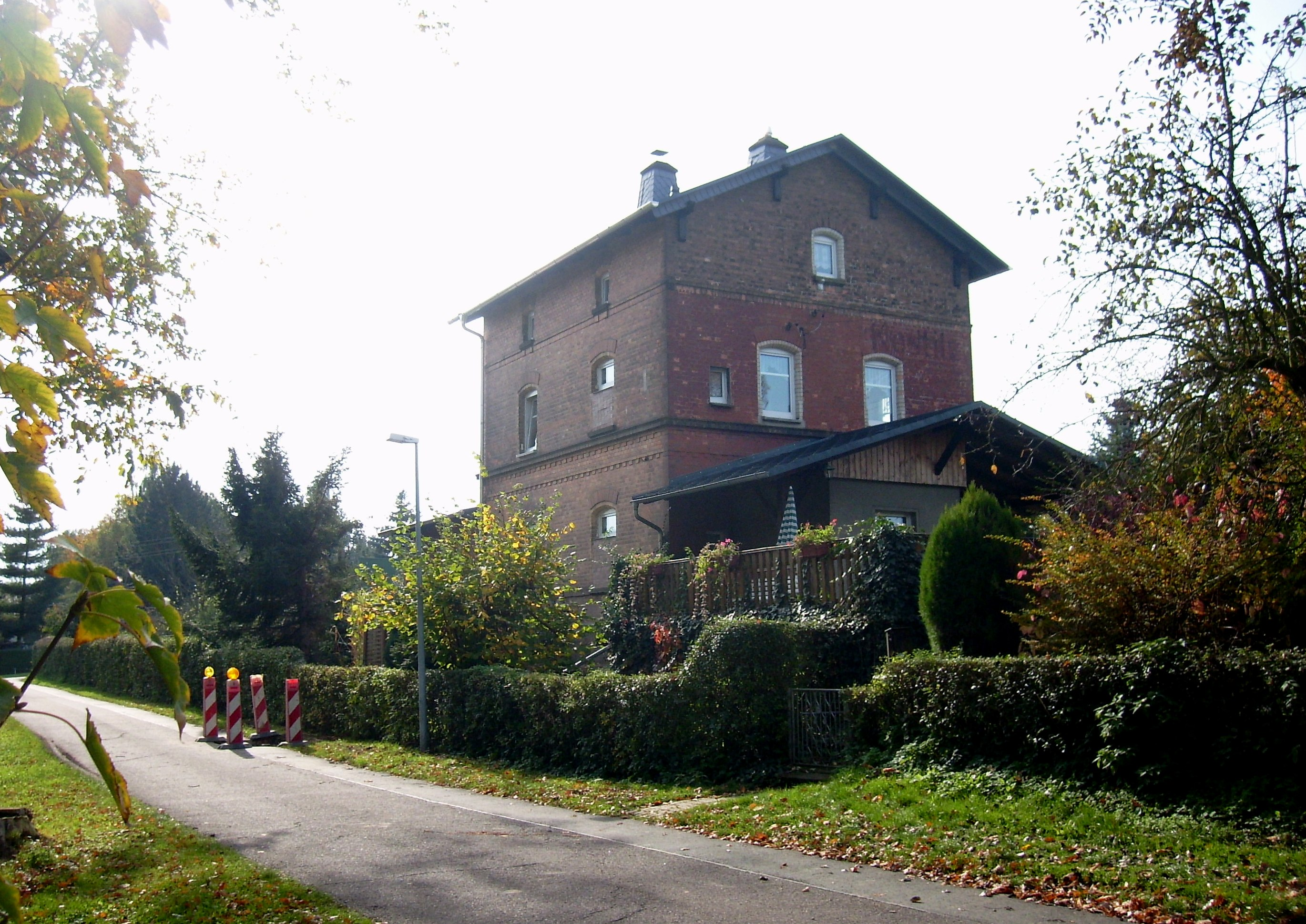 Building of a train station in Kostitz (Starkenberg, district of Altenburger Land, Thuringia) at the former Meuselwitz - Ronneburg railway line